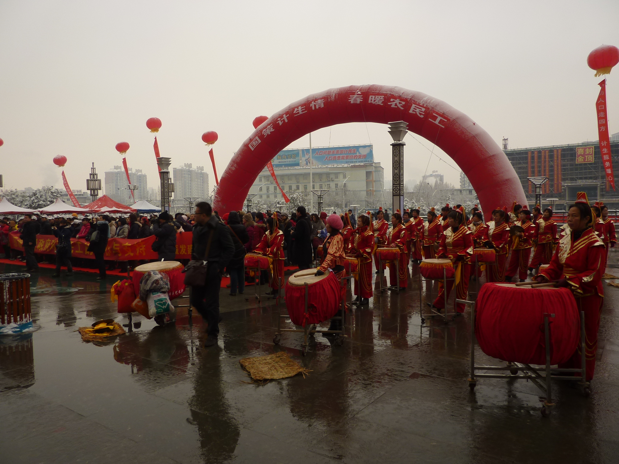 "Year 2011 campaign for dissemination of family planning information among migrant population." An event held on a January morning in fron of the Wuchang Train Station (western square), complete with an orchestra, speeches from Hubei provincial officials, and giving out of free calendars, condoms, etc. to the traveling public.